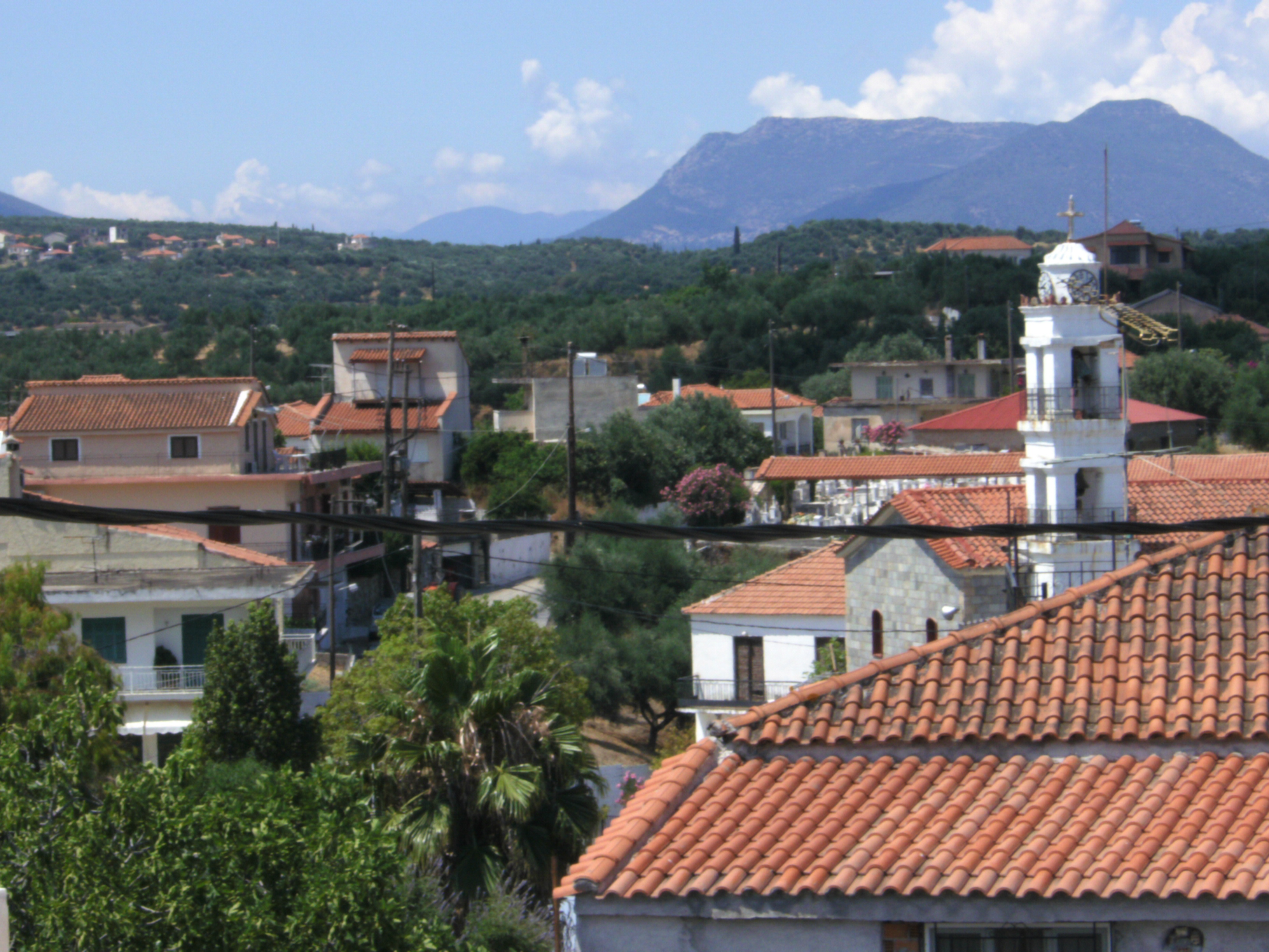 North side of Avramiou village in Messinia, Greece.